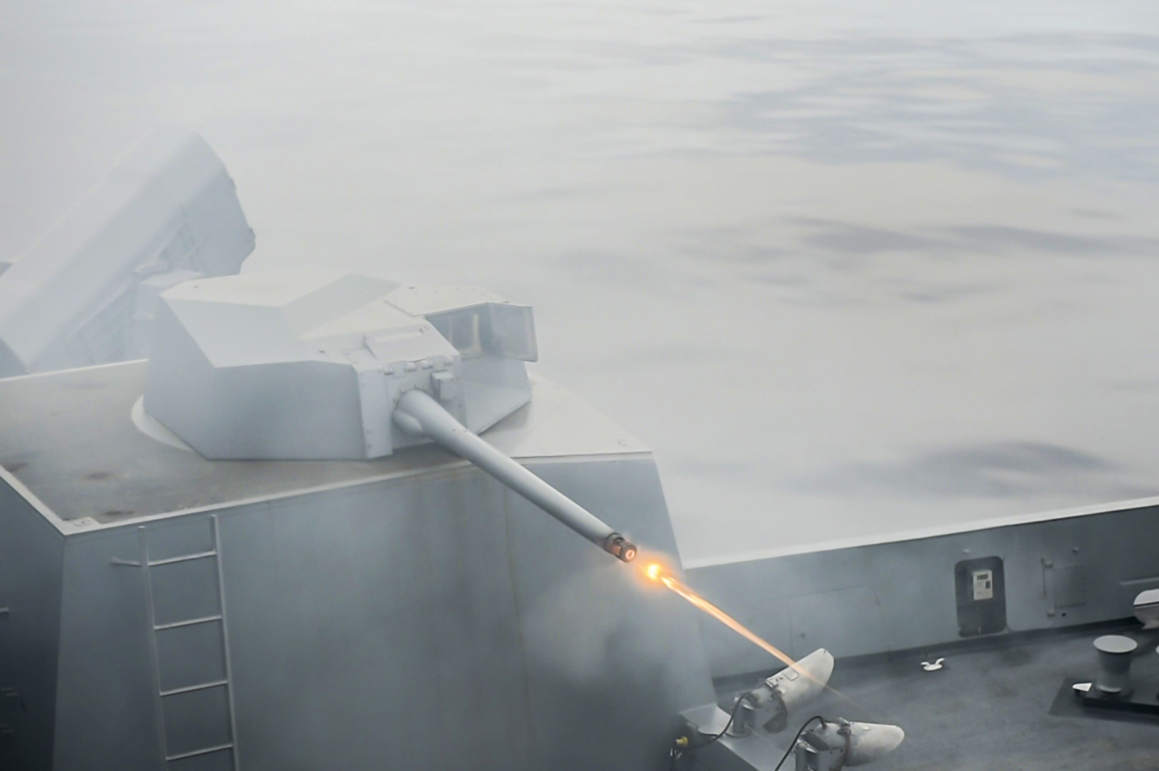 EAST CHINA SEA (Aug. 17, 2016) The amphibious transport dock ship USS Green Bay (LPD 20) fires a MK-46 30mm gun during a live-fire exercise. Green Bay, part of the Bonhomme Richard Expeditionary Strike Group, is operating in the U.S. 7th Fleet area of operations in support of security and stability in the Indo-Asia-Pacific region. (U.S. Navy photo by Mass Communication Specialist 3rd Class Patrick Dionne/Released) 160817-N-XM324-120 Join the conversation: navylive.dodlive.mil